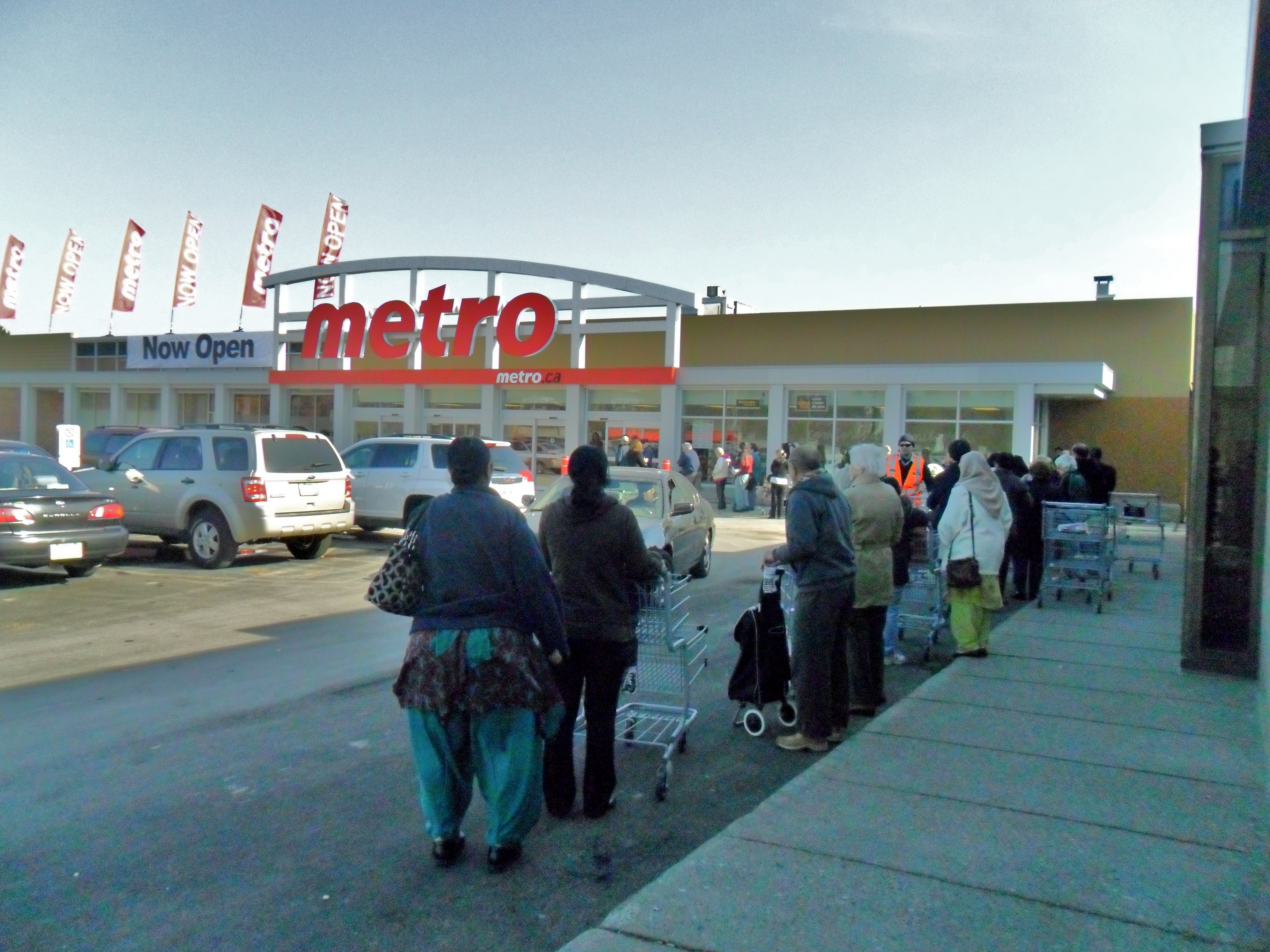 Massive lineups for the newly renovated Metro at Brampton Mall. Note photo-manipulation done, shadows and highlights. Original available on request from "zanimum", Nicholas Moreau.